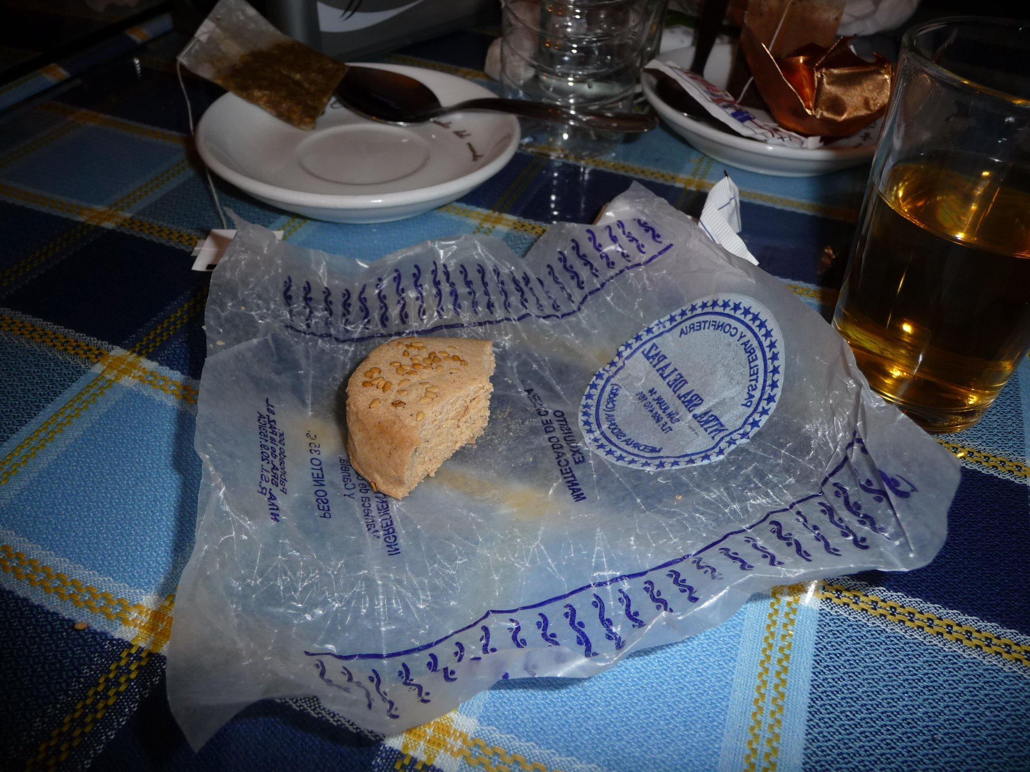 Mantecado, Andalusian Christmas pastry (Spanish)